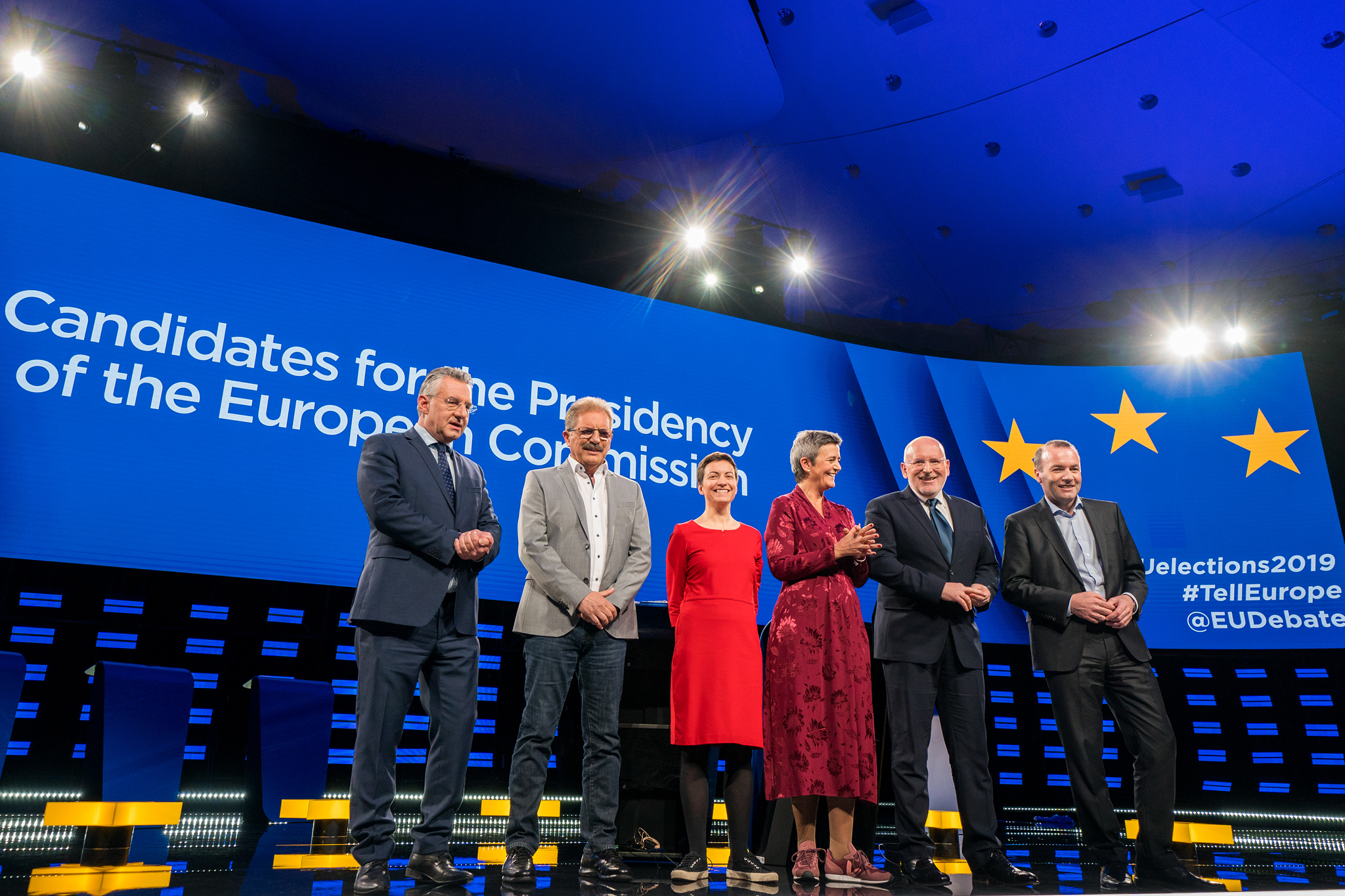 The live debate will be moderated by TV anchors Markus Preiss (ARD WDR), Emilie Tran-Nguyen (France Télévisions) and Annastiina Heikkilä (Yle) and broadcast by the EBU's public service media members and others throughout Europe. Speaking order for lead candidates is: Nico CUÉ, European Left (EL) Ska KELLER, European Green Party (EGP) Jan ZAHRADIL, Alliance of Conservatives and Reformists in Europe (ACRE) Margrethe VESTAGER, Alliance of Liberals and Democrats for Europe (ALDE) Manfred WEBER, European People’s Party (EPP) Frans TIMMERMANS, Party of European Socialists (PES) This photo is free to use under Creative Commons license CC-BY-4.0 and must be credited: "CC-BY-4.0: © European Union 2019 – Source: EP". No model release form if applicable. For bigger HR files please contact: webcom-flickr(AT)